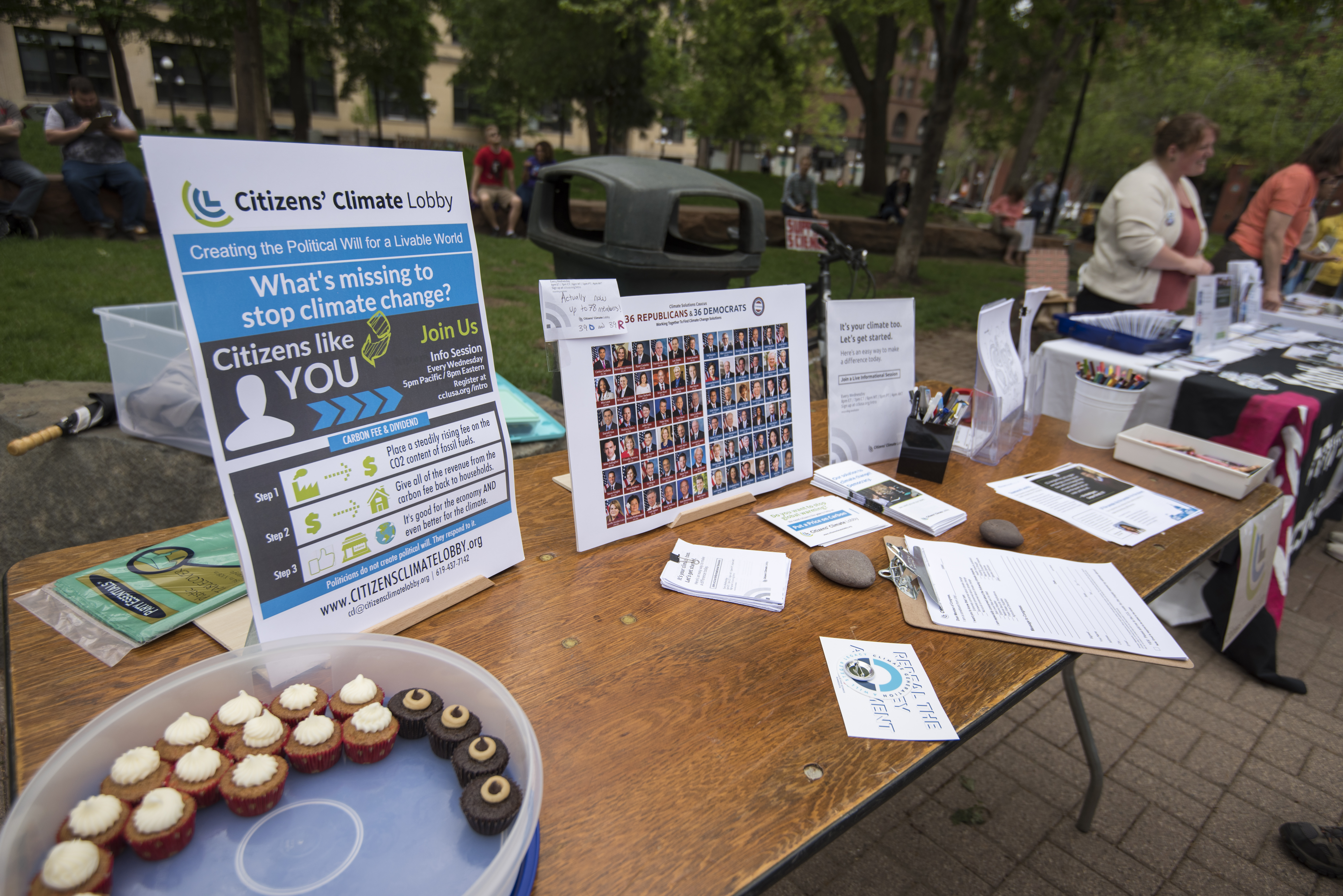 St. Paul, Minnesota May 19, 2018 About 400 gathered in Mears Park to support science and scientific based political policies for the greater public good. The speakers brought up these topics: energy sustainability, protecting the environment and global climate change. 2018-05-19 This is licensed under the Creative Commons Attribution License. Give attribution to: Fibonacci Blue